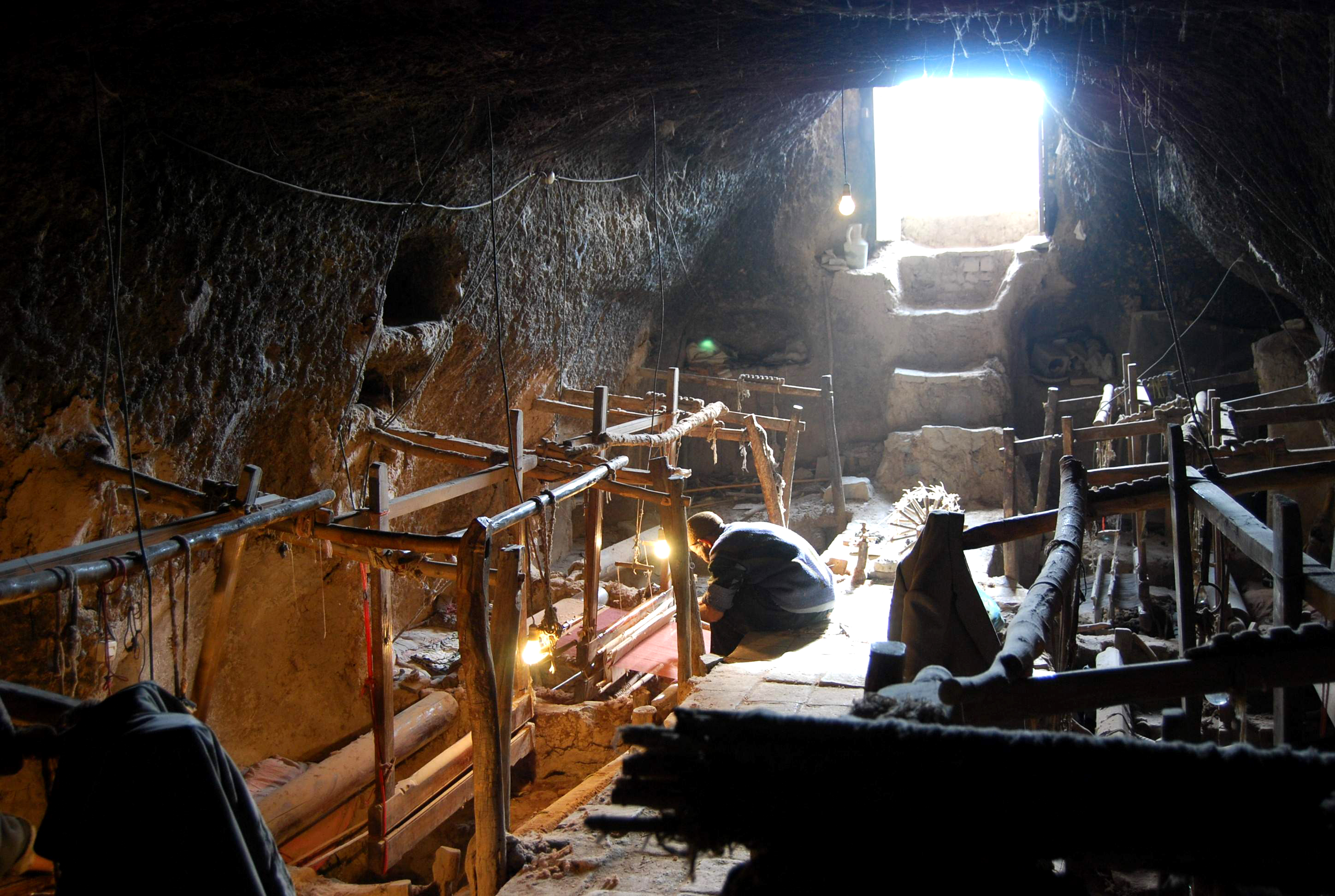 عبابافي محمديه